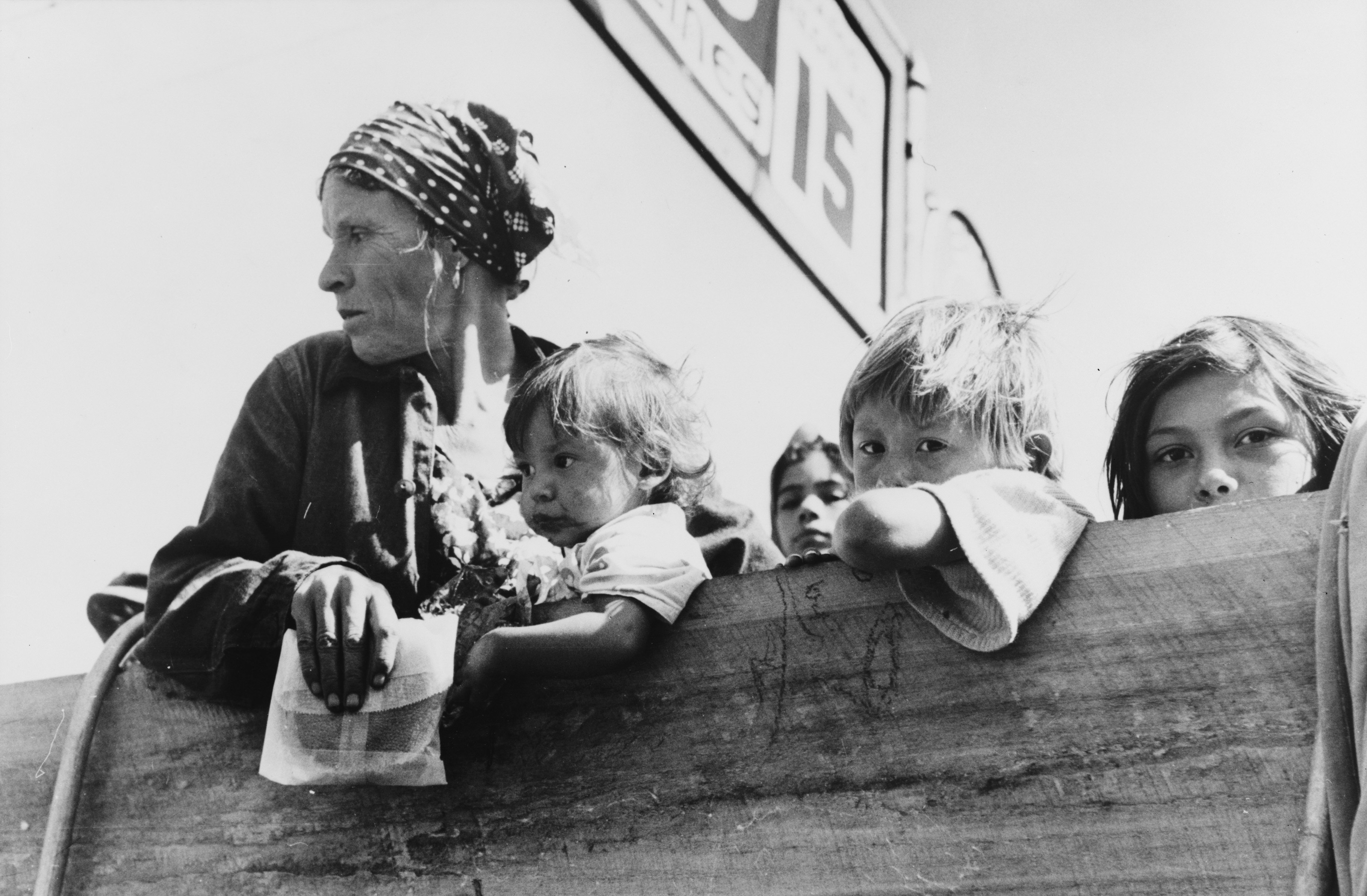 Mexican woman and children looking over side of truck which is taking them to their homes in the Rio Grande Valley from Mississippi where they have been picking cotton.They are being deported due to white trade unions wanting their jobs back. Filling station, Neches, Texas.